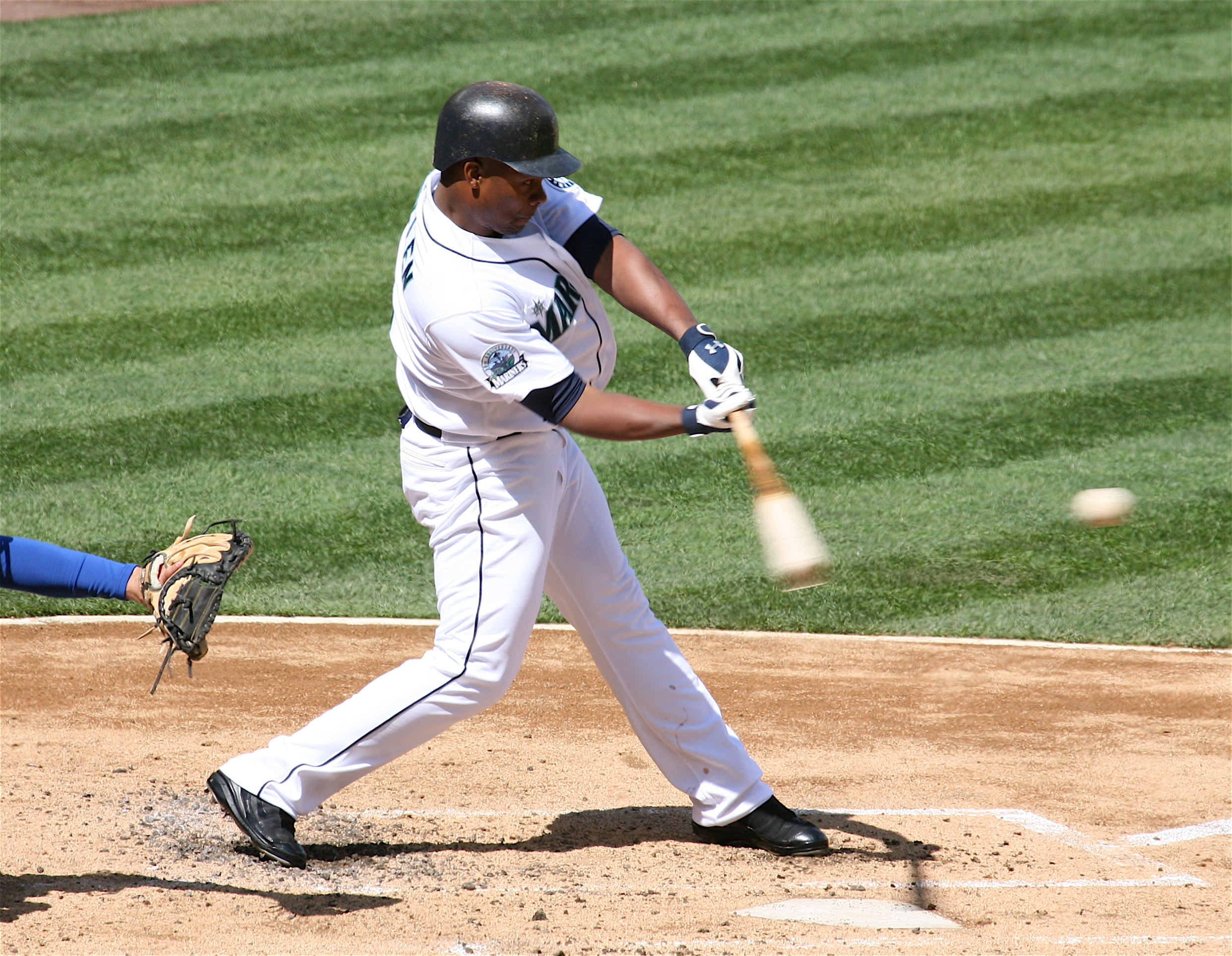 José Guillén swinging at a pitch.